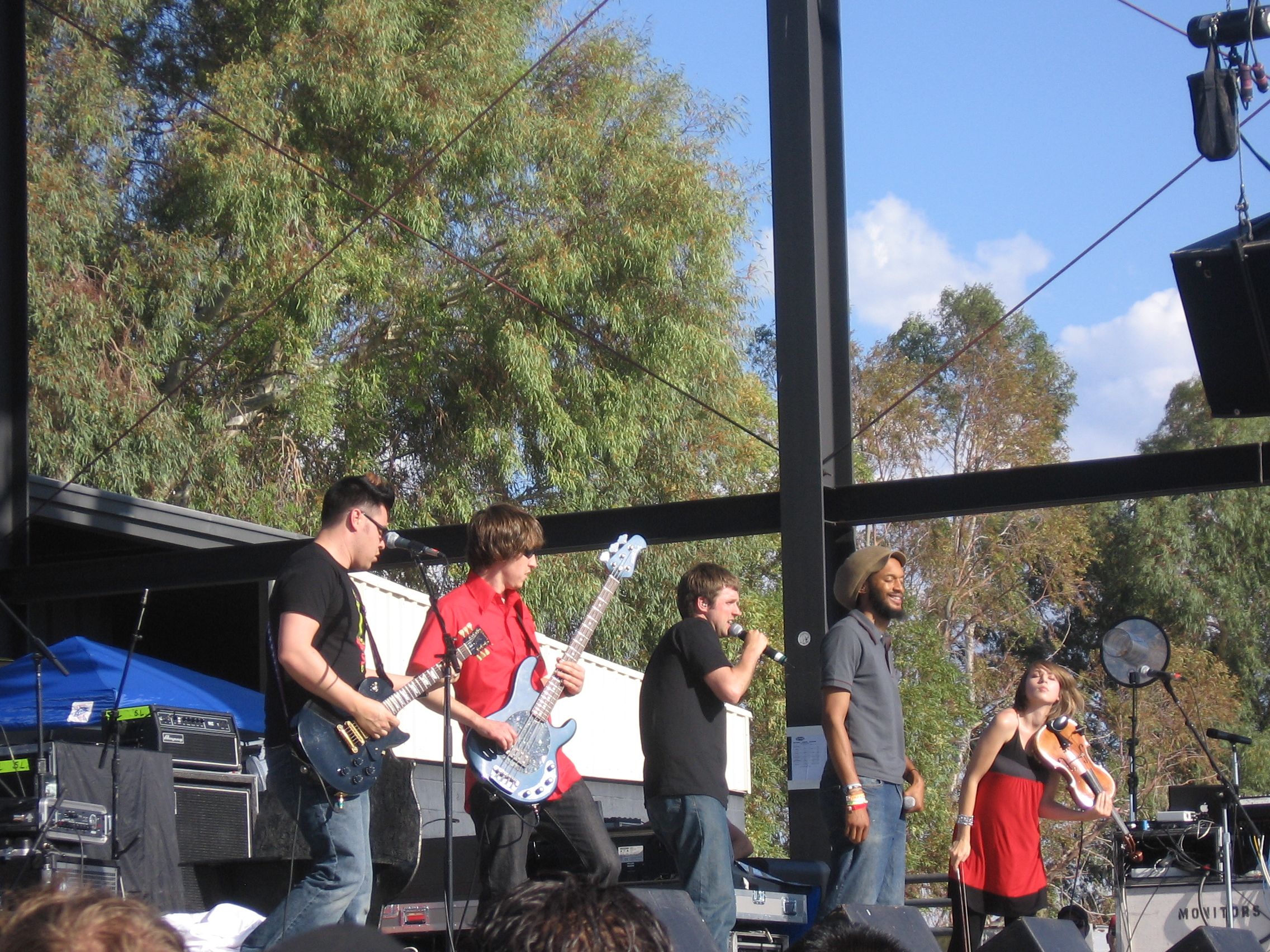 The Flobots played at KFMA Day in Tucson, Arizona on May 16th, 2008, along with other bands such as Apocolyptica, Scars on Broadway and Metallica.